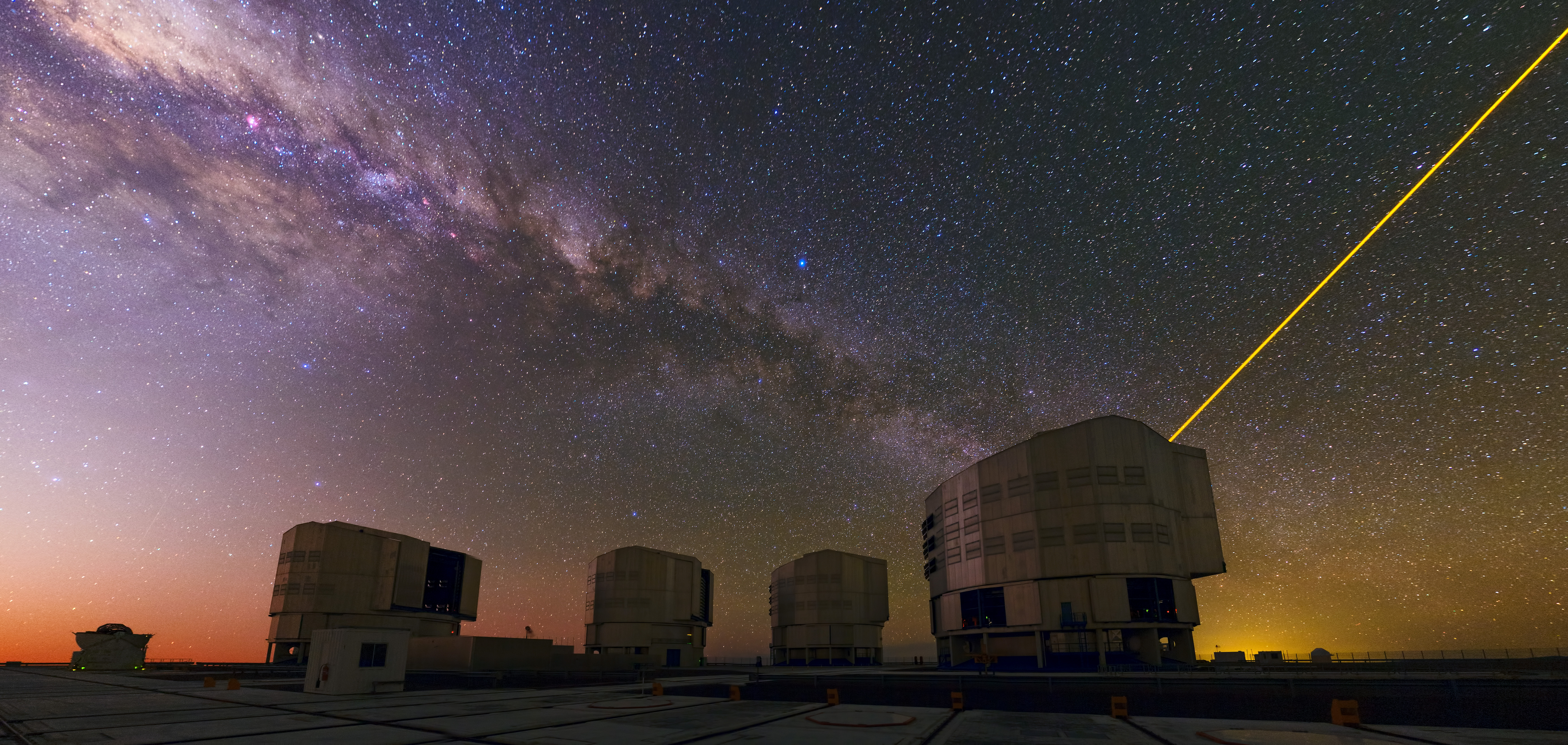 ESO’s Paranal Observatory is one of the best places on Earth to take in the night sky. This panorama of ESO’s Very Large Telescope (VLT) atop the platform of Chile’s Cerro Paranal was taken by Babak Tafreshi, one of the ESO Photo Ambassadors. A mix of colours sweeps across the sky in this image. From the fiery red sunset up to the dusty purple band of the Milky Way. Although the VLT site is one of the best places on Earth for astronomy, the telescope must still overcome the natural distortions caused by our atmosphere. This is done through a process known as adaptive optics. Astronomers can make use of an artificial star by shining a powerful laser — seen here projected from the telescope on the far right — to correct for the blurring caused by the atmosphere. The VLT, as a flagship facility for European astronomy, has opened up a new golden age of discovery in astronomy by making use of the most state-of-the art technologies.